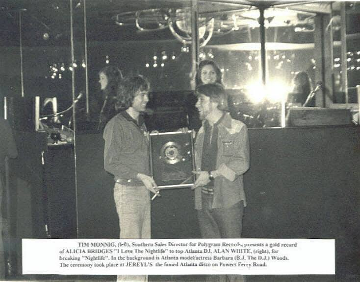 Alan White being presented with a gold record for Alicia Bridges' 'I Love the Nightlife (Disco Round)' by Tim Monnig of Polygram Records in 1978